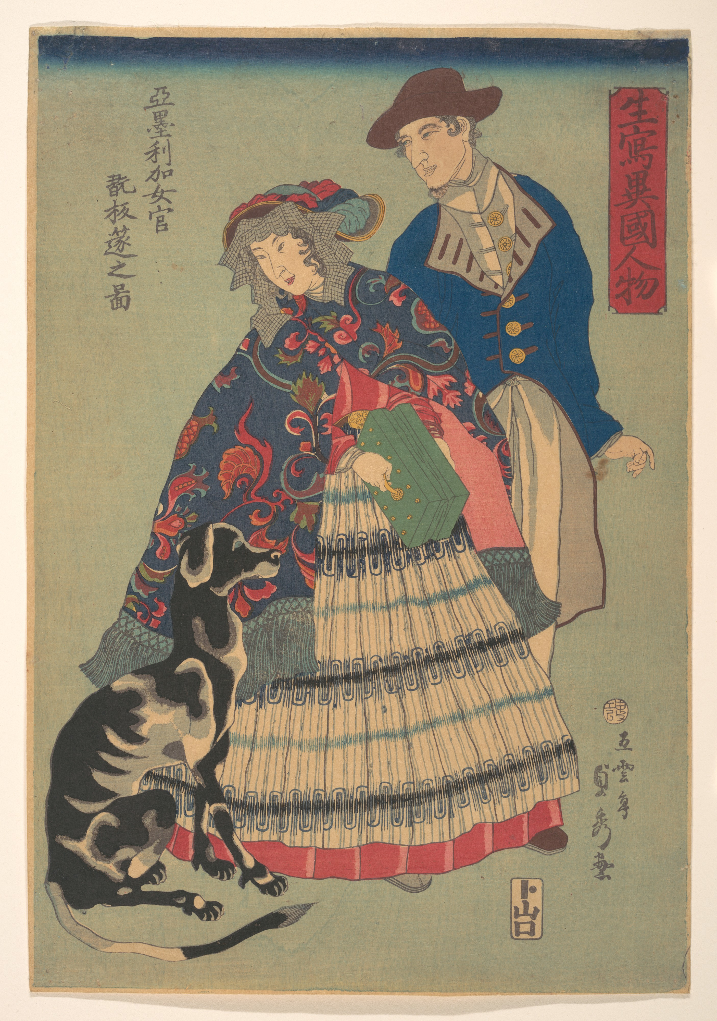 American Woman Playing a Concertina, from the series Life Drawings of People from Foreign Nations